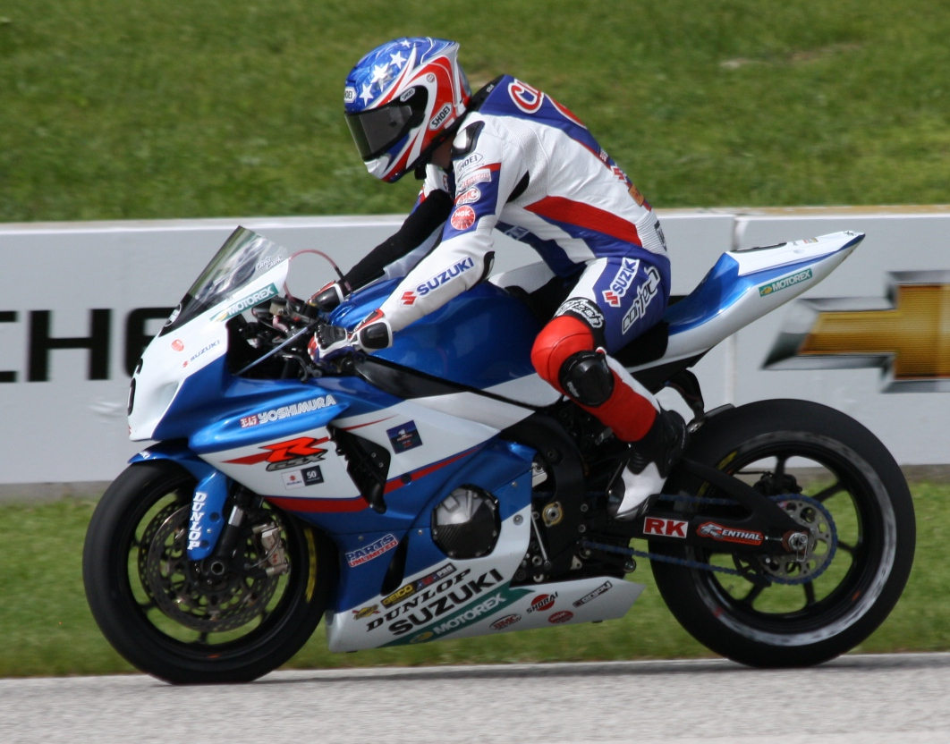 The Superbike #36 of Martin Cardenas at the second day of the 2013 Subway SuperBike Doubleheader at Road America.